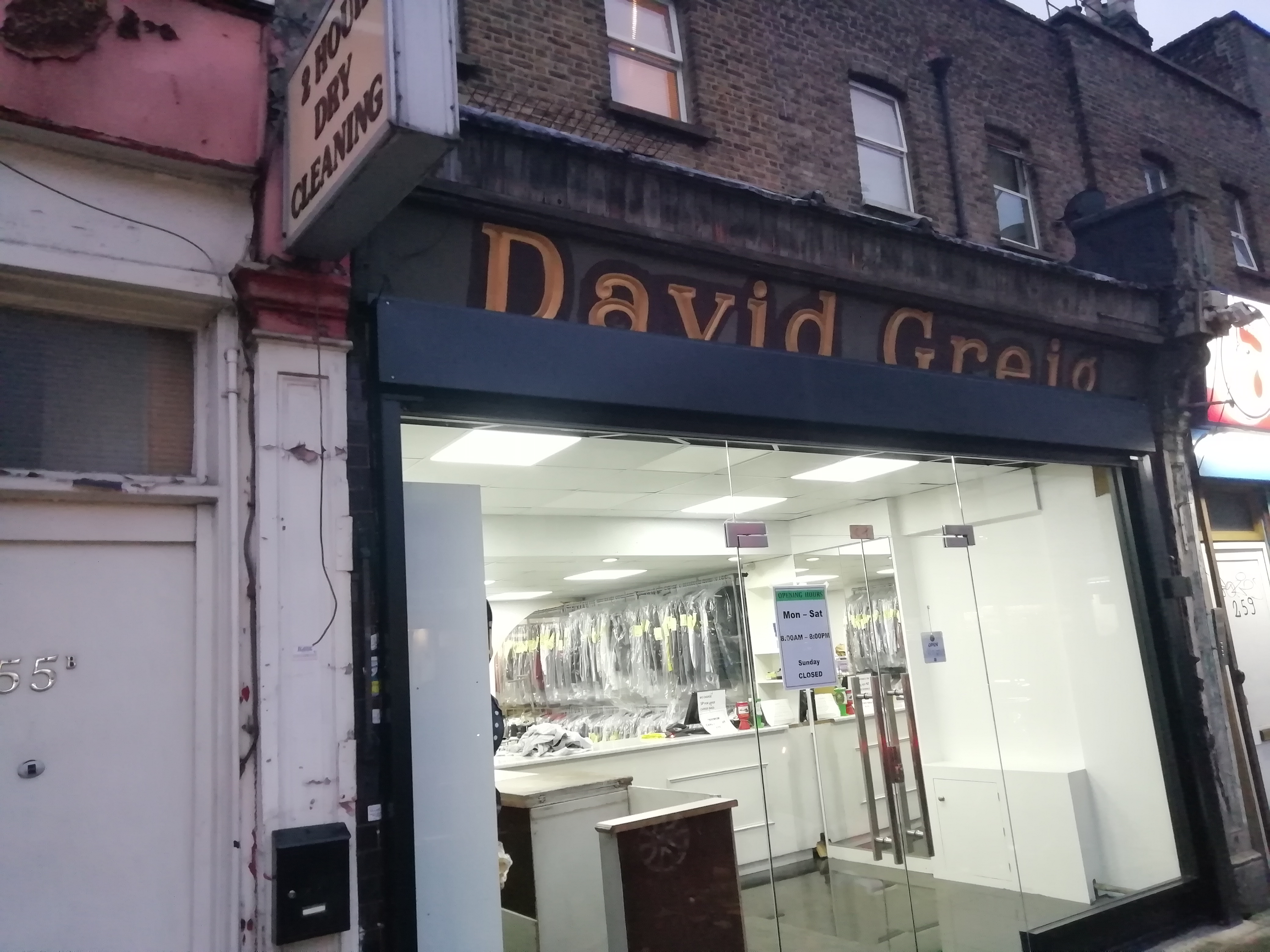 Photo of a David Greig shop sign, uncovered during shop remodelling works in November 2019 at 257 Old Kent Road. David Greig was a supermarket chain that rivalled Sainsbury's after a disagreement. They went out if business in the early 1970's after multiple bereavements. The sign is in fantastic condition and was hidden behind a dry-cleaners frontage, which was also notable for its age stemming back to the era of the '01' telephone dialling code for London. The sign is due to be covered over again soon (November 2019).